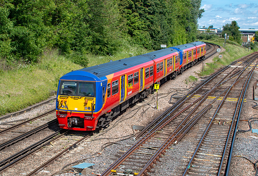 BR class 456 456014 in SW red livery approaching Guildford from the Reading line. Formed of vehicles 64748+78263.